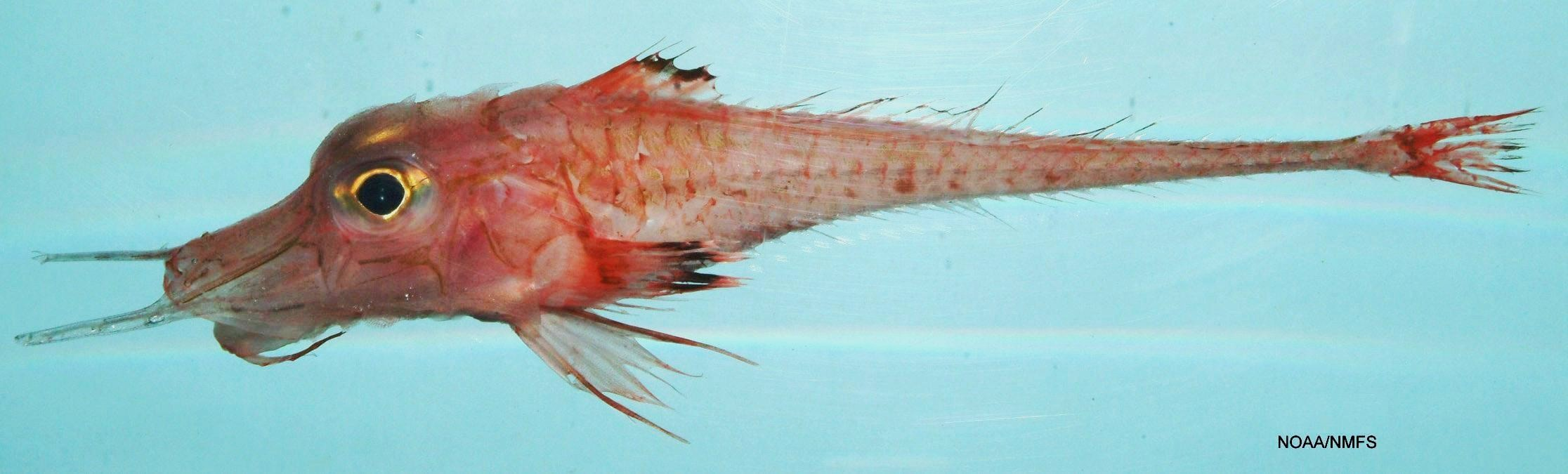 Armored searobin ( Peristedion miniatum )